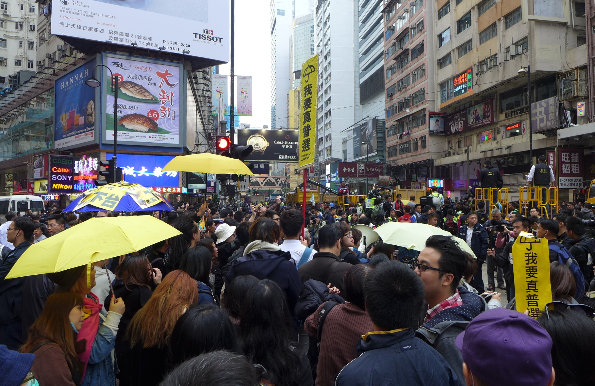 People ask for Universal Suffage in CWB